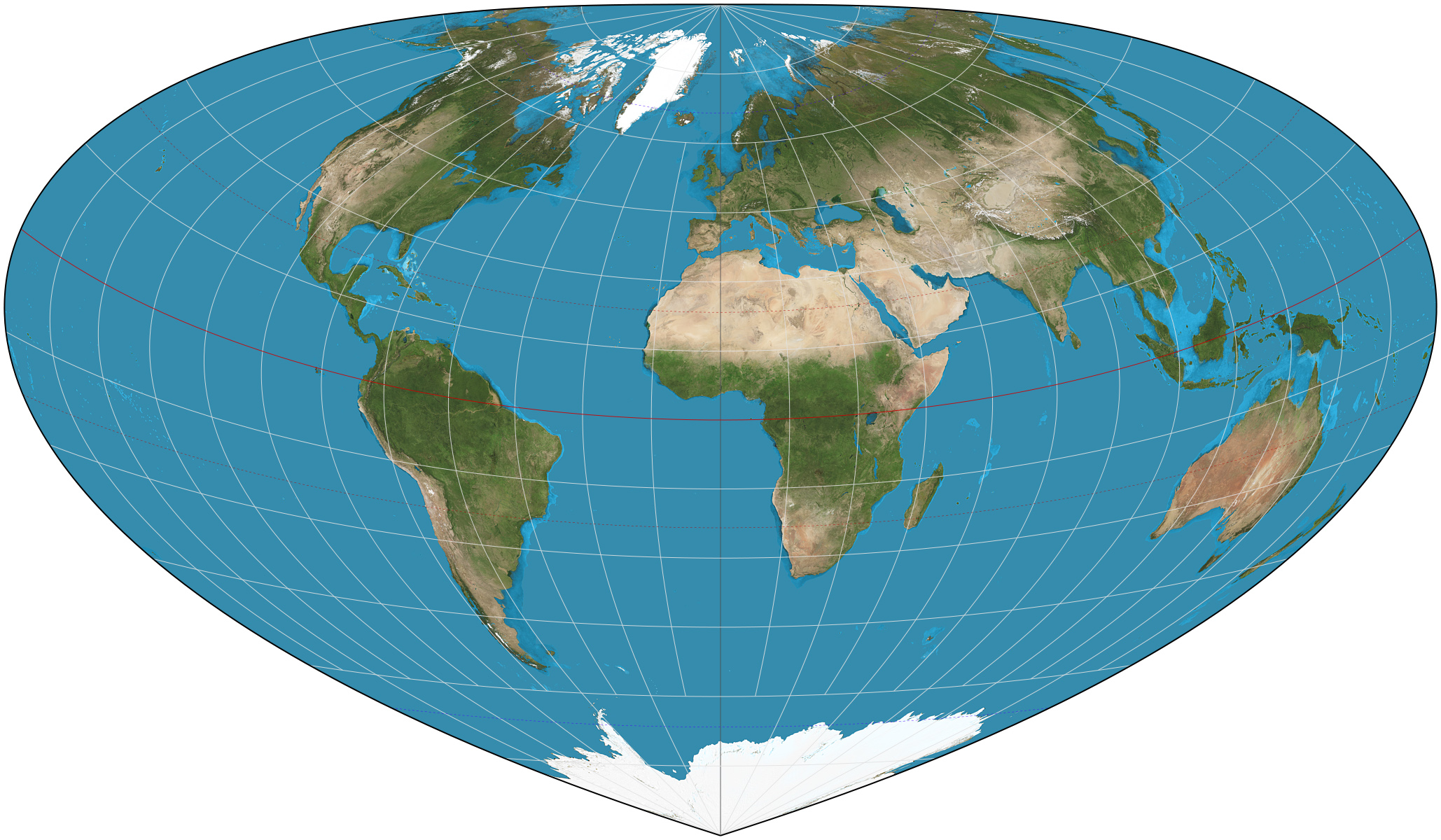 The world on Bottomley projection. 15° graticule. Imagery is a derivative of NASA’s Blue Marble summer month composite with oceans lightened to enhance legibility and contrast. Image created with the Geocart map projection software.